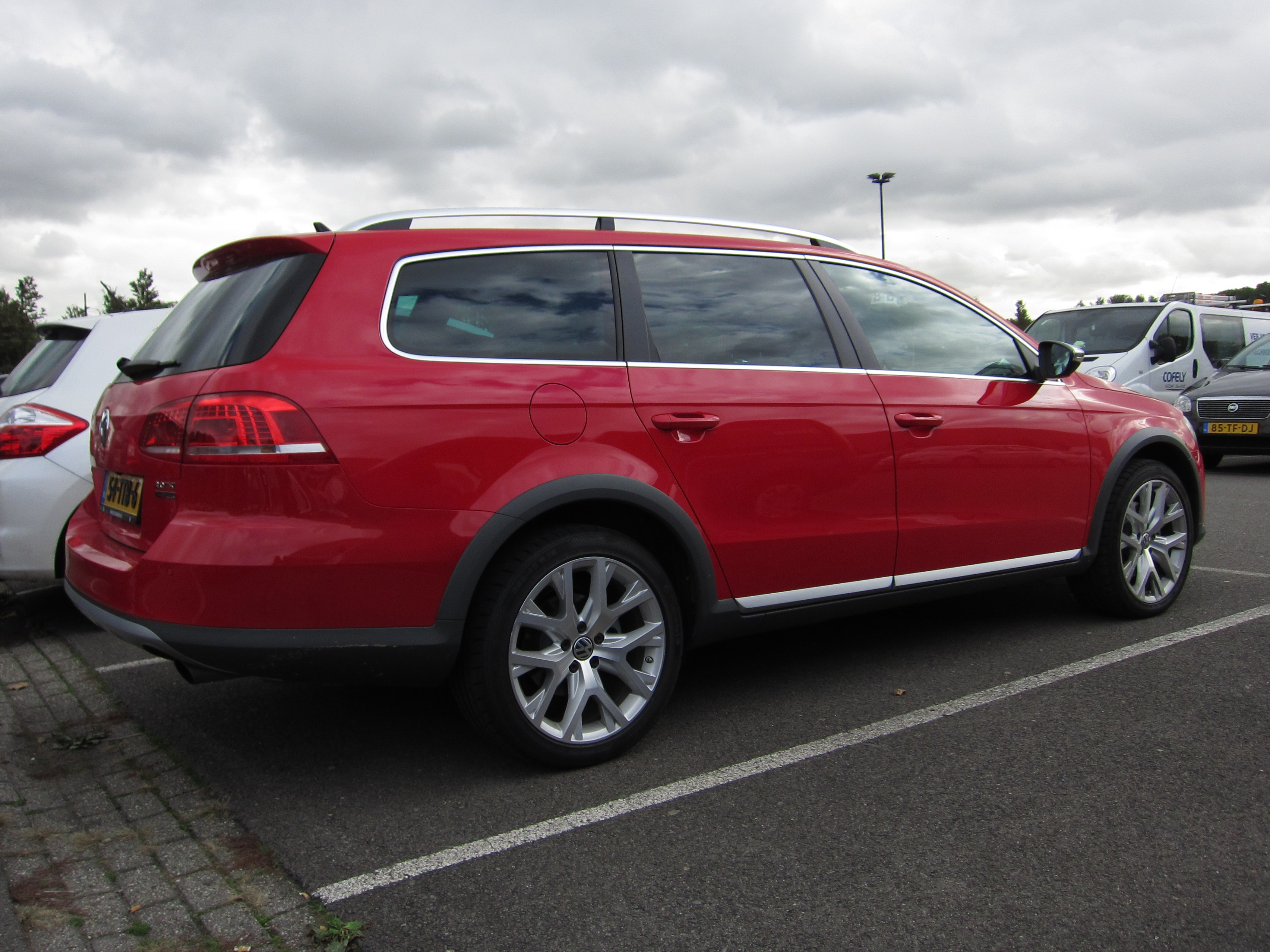 Volkswagen Passat Alltrack